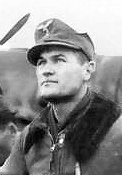 Photograph of Mato Dukovac